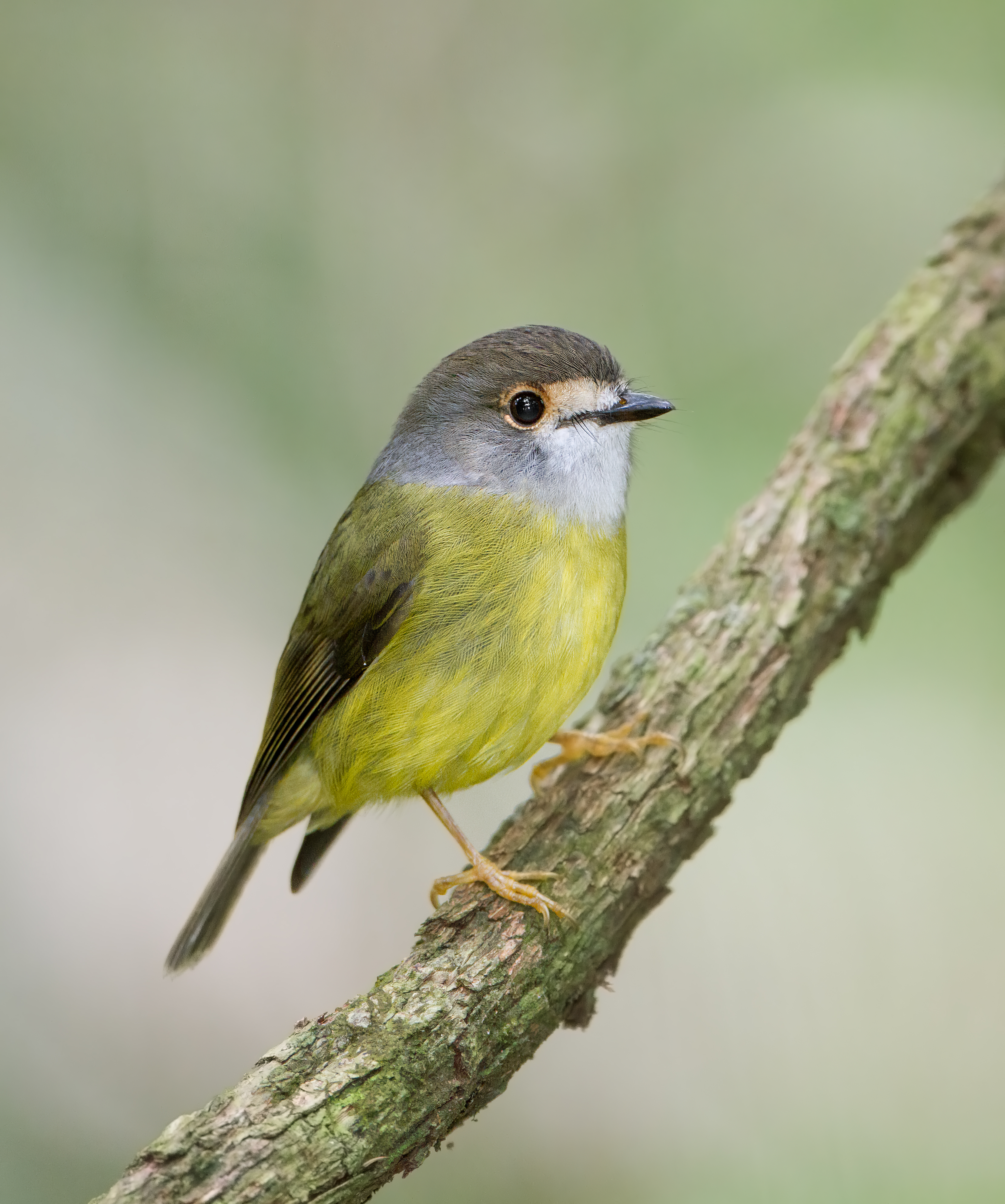 Pale-yellow Robin (Tregellasia capito), Julatten, Queensland, Australia.